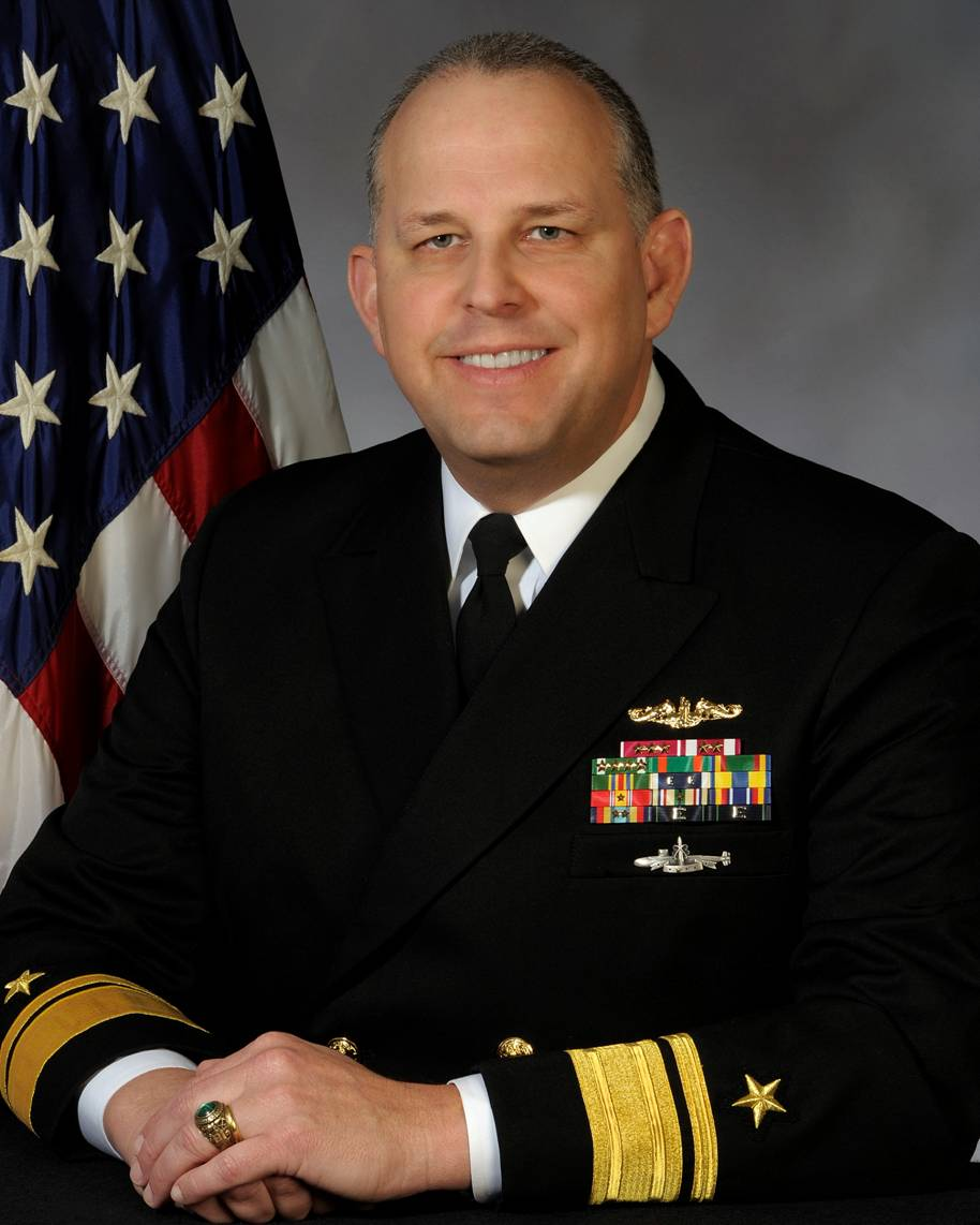 Rear Adm. Patrick Brady assumed command of the Space and Naval Warfare Systems Command (SPAWAR) in August 2010. Previous flag assignments included the commander of the Naval Undersea Warfare Center; the deputy director of Submarine Warfare (OPNAV N87B); and the deputy commander for Undersea Warfare (NAVSEA 07). Since becoming a member of the Acquisition Professional Corps in 2000, he has served as C5I Deputy Design/Warfare Requirements Manager and, subsequently, the deputy program manager for the Virginia Class Submarine (PMS 450); the major program manager for Submarine Combat and Weapons Control (PMS 425); the executive assistant to the Commander, Naval Sea Systems Command; and the major program manager for Advanced Undersea Systems (PMS 394). His career as a submariner included assignments in USS Lewis and Clark (SSBN 644) (BLUE); USS Omaha (SSN 692); USS San Francisco (SSN 711); and USS Drum (SSN 677); culminating in command of USS Portsmouth (SSN 707). Brady is a 1981 graduate of the United States Naval Academy where he received a Bachelor of Science in Ocean Engineering. He also earned a Master’s in National Security Affairs from the Naval Postgraduate School.